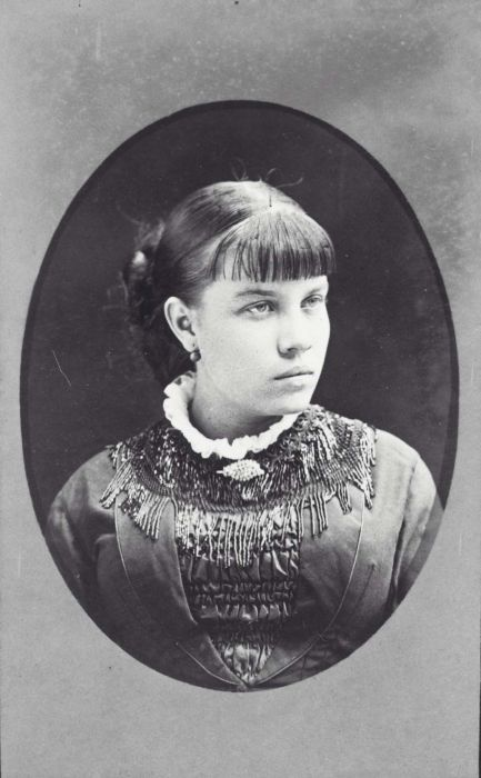 Studio portrait of a woman